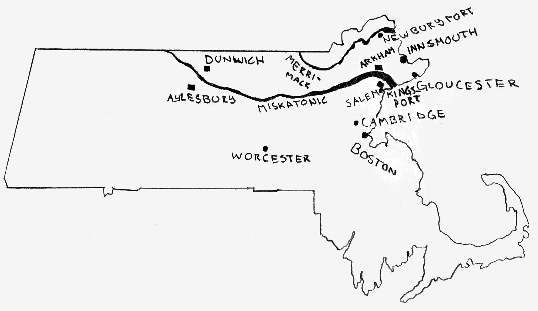 So called 'Lovecraft country' of Cthulhu Mythos, showing some of the most important cities of Massachusetts alongside with towns invented by Lovecraft. Imaginary towns are marked with square, real ones with circle.